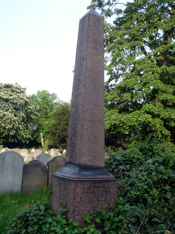 Charles Field funerary monument, Brompton Cemetery, London